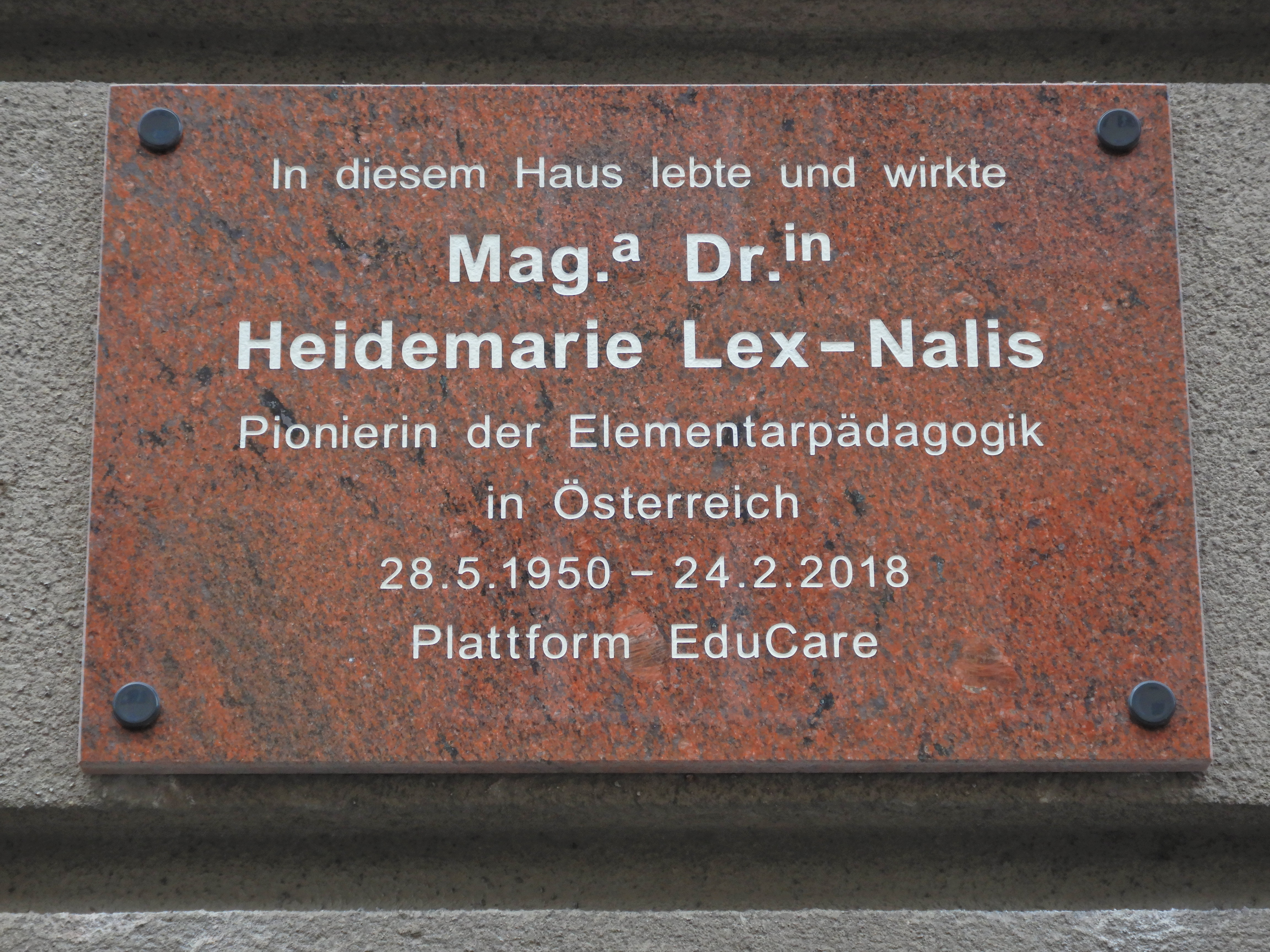 Memorial plaque to Heidemarie Lex-Nalis